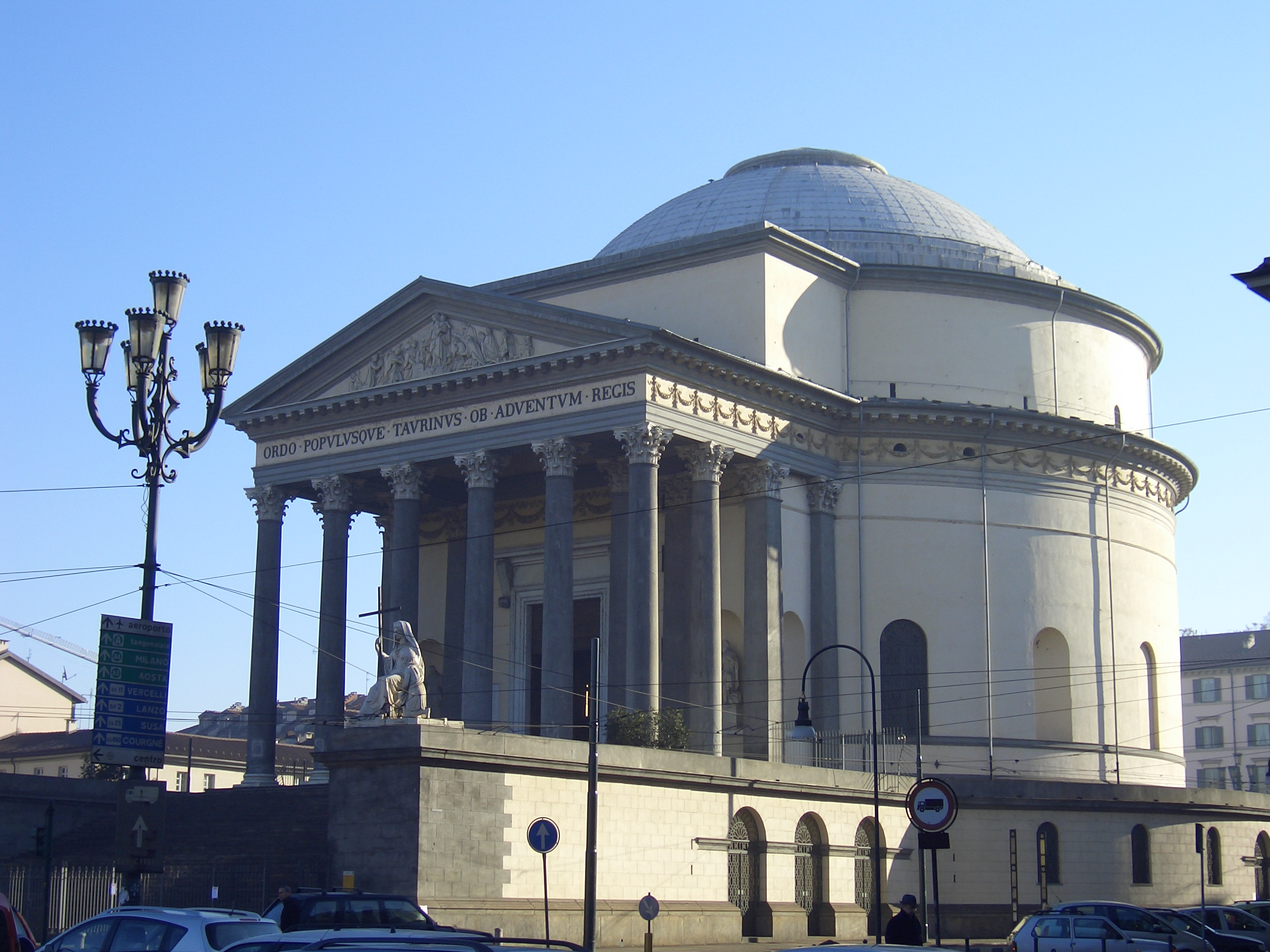 The "Gran Madre", a church in Turin on the south bank of the Po river that, due to its shape, reminds the more famous Pantheon in Rome.